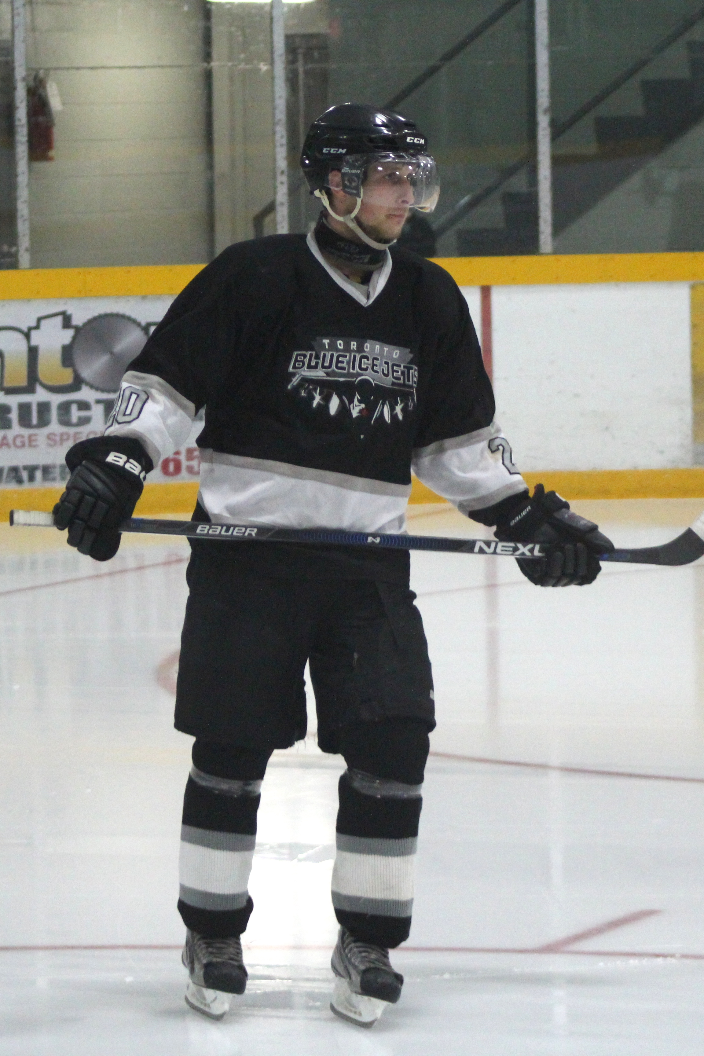 These images of GMHL Action action during the 2015-16 season are taken by Devan Mighton.